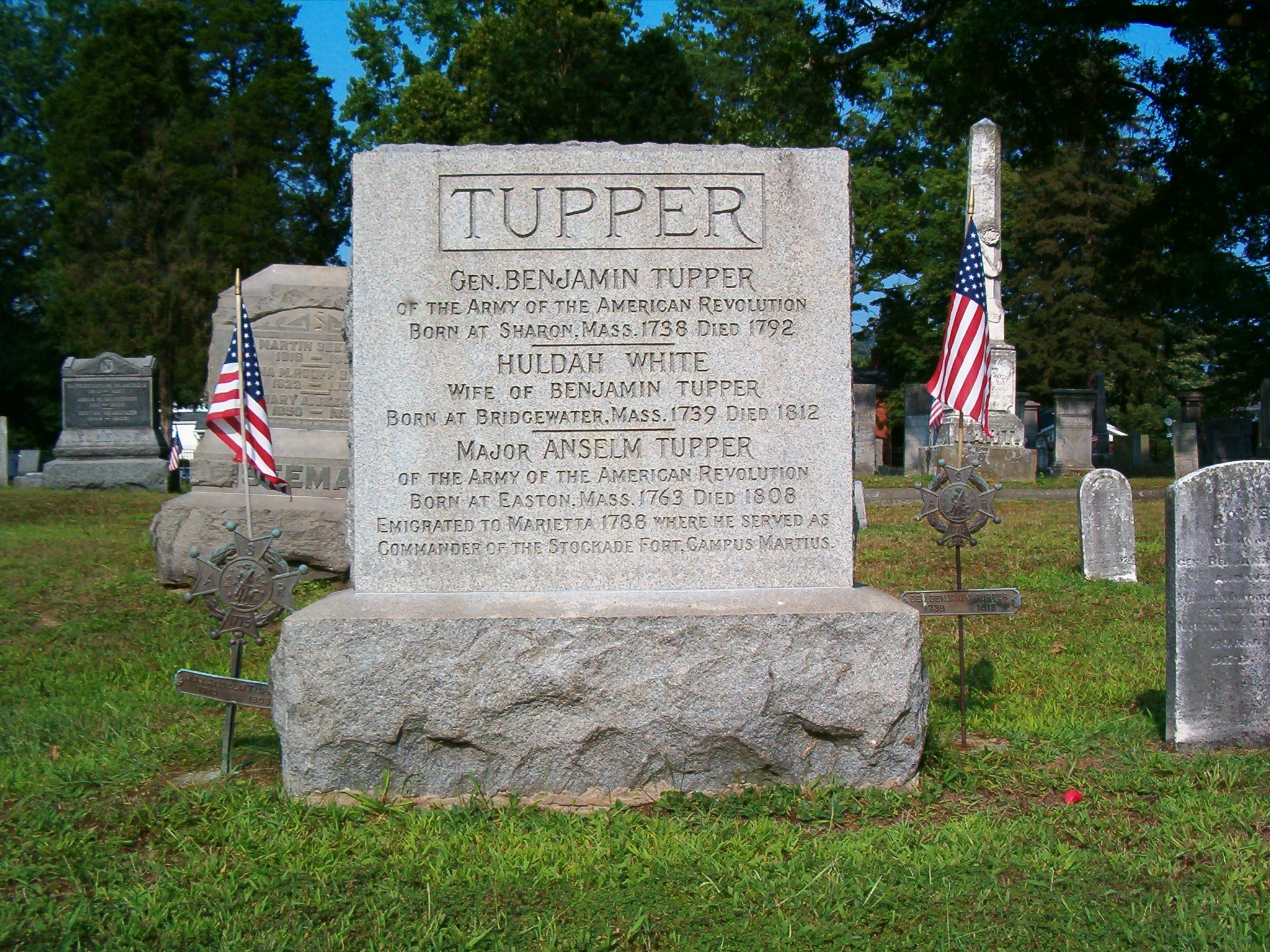 The Benjamin Tupper marker, Mound Cemetery, Marietta, Ohio, August 2008. The marker also includes his wife, Huldah White, and their son, Anselm Tupper. I took this photo, and I release to the public domain. ColWilliam (talk) 23:46, 31 August 2008 (UTC)